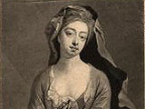 Catherine, Lady Walpole